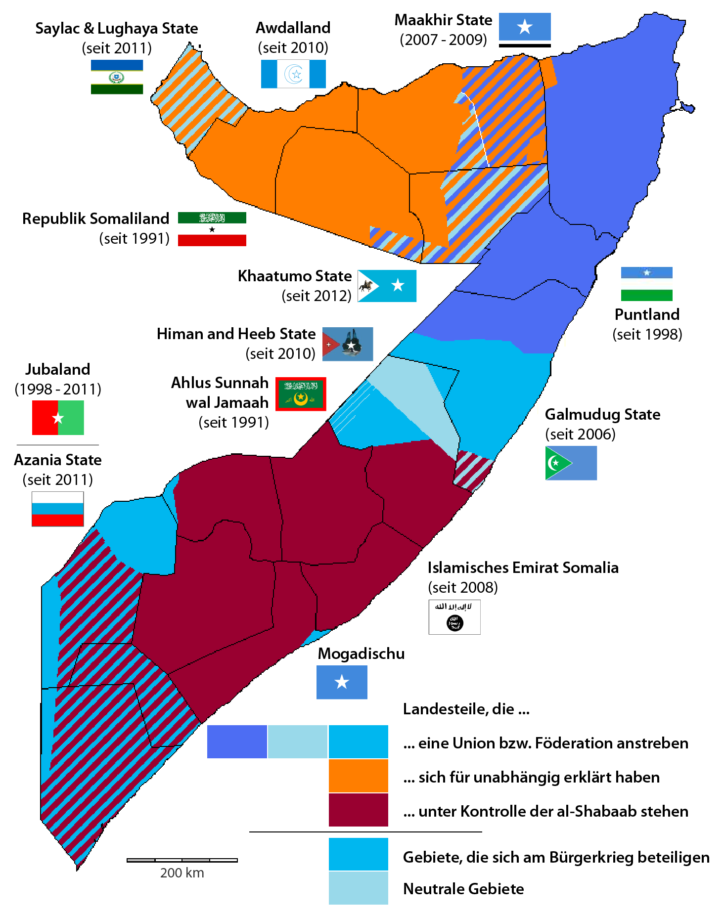 Map of states in Somalia